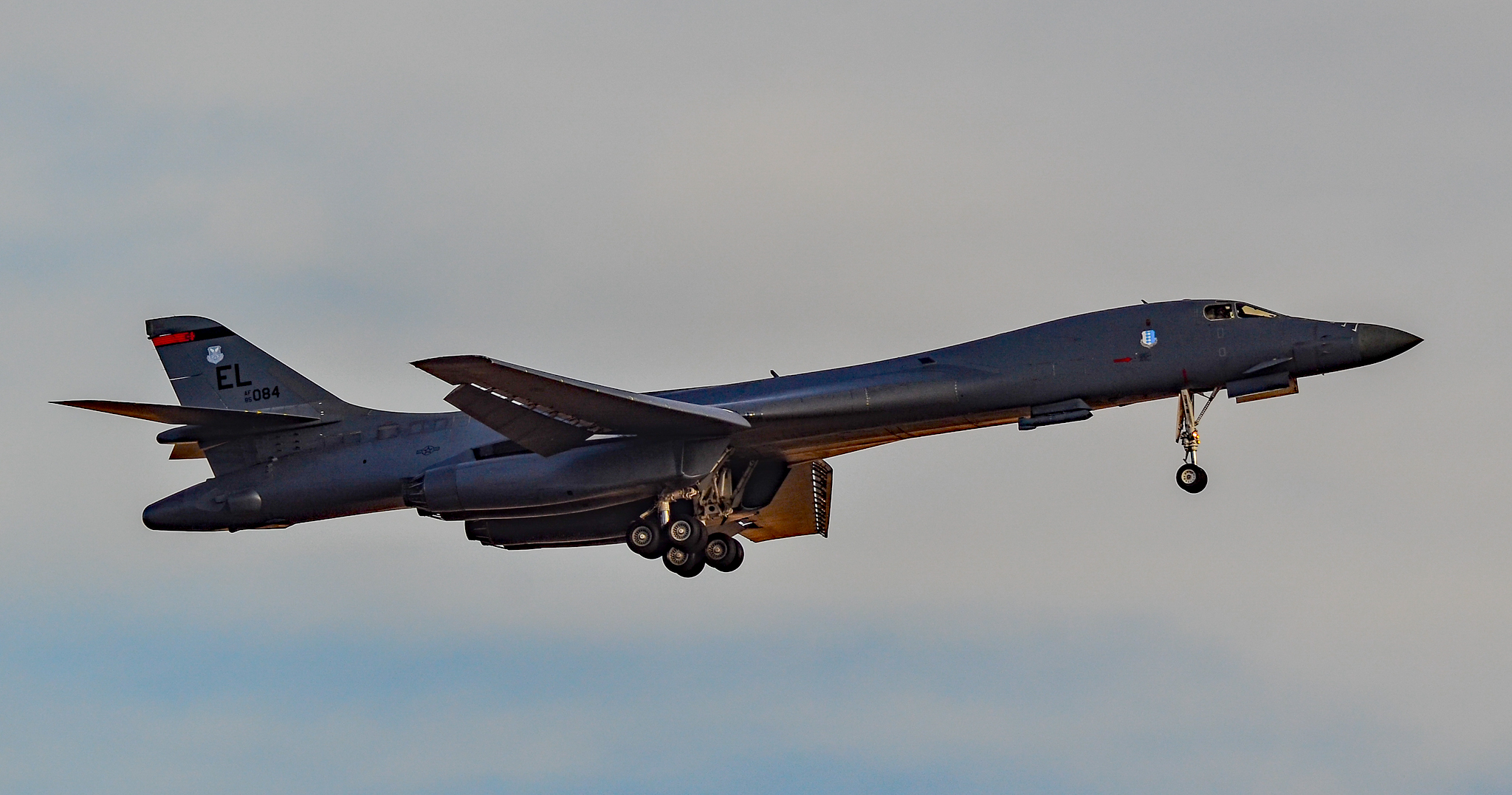 Red Flag 17-1: Jan. 23 to Feb. 10, 2017 Las Vegas - Nellis AFB (LSV / KLSV) USA - Nevada, February 7, 2017 Photo: TDelCoro